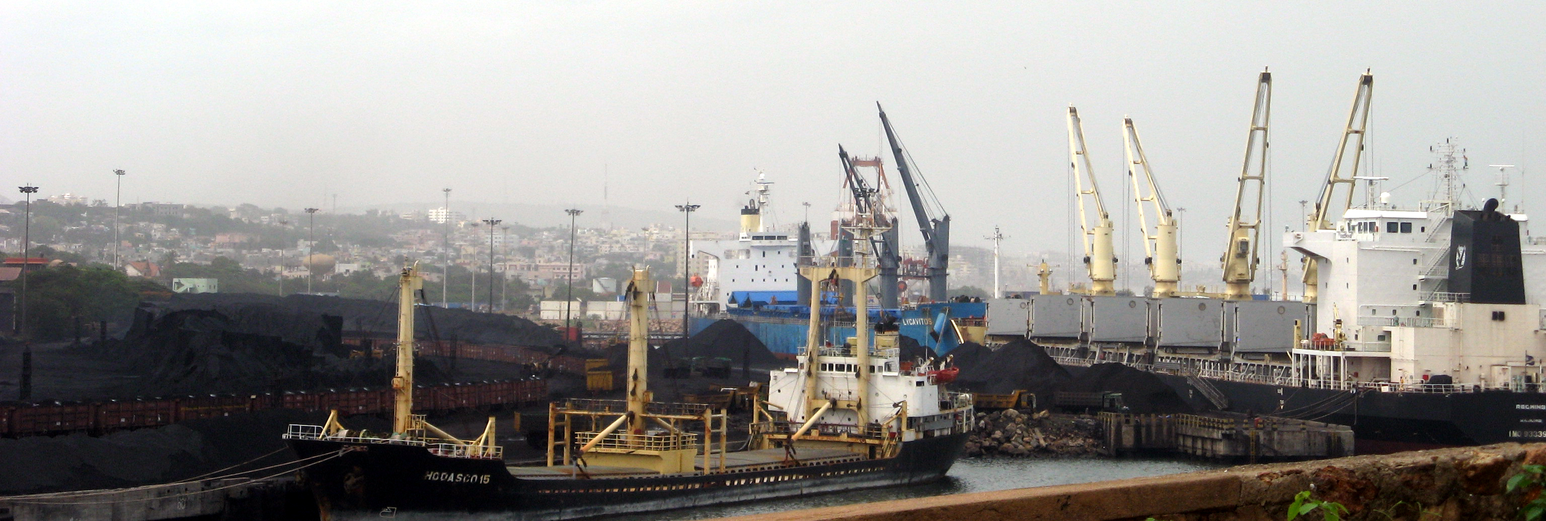 Vizag harbour view